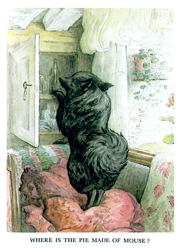 Duchess searching for the mouse pie, illustration from The Tale of the Pie and the Patty-Pan